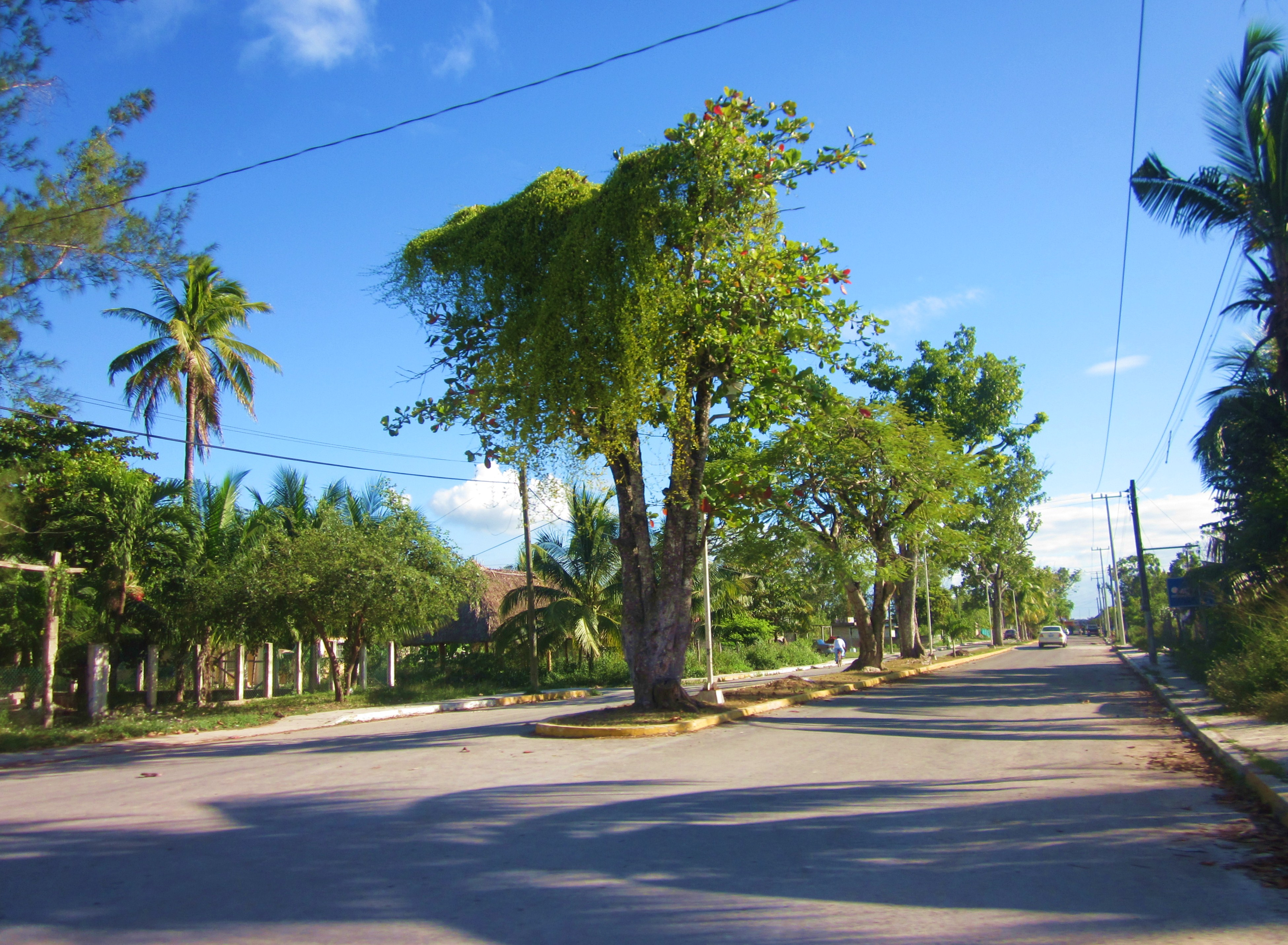 Calle en Huay Pix, Q. Roo.